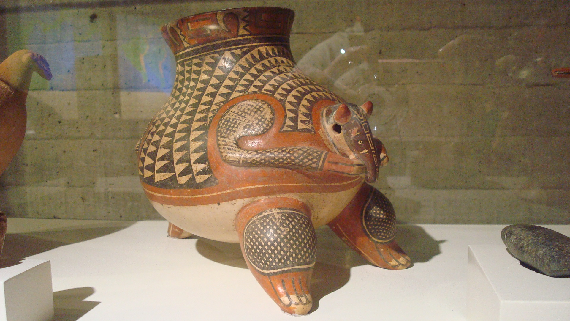 Armadillo shaped pot of Nicoya culture. Northern Pacific of Costa Rica. 1000-1300 AD 21.3 x 26.8 cm. Museum of Pre-Columbian Gold, San Jose, Costa Rica.